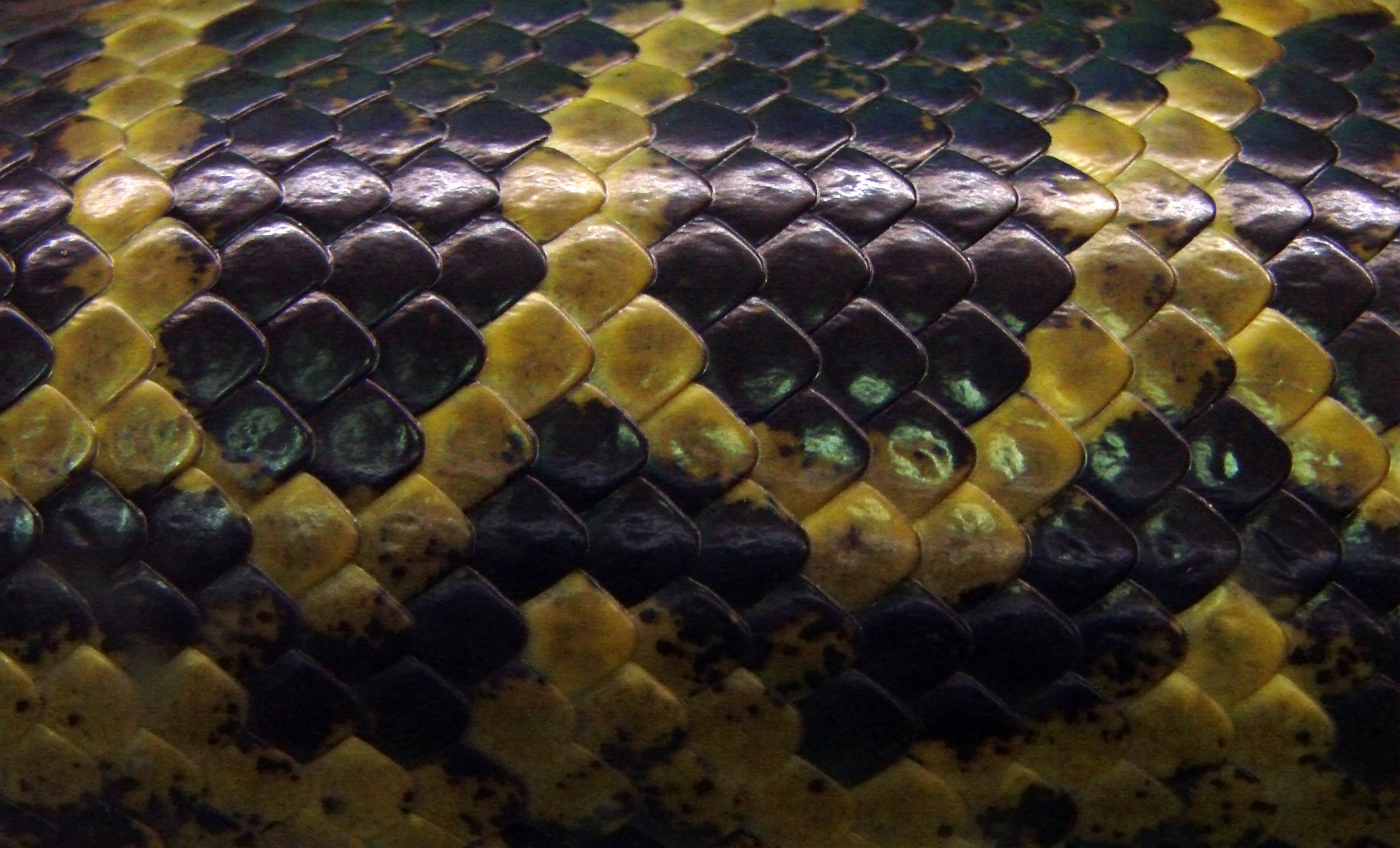 Scales of a yellow anaconda (Eunectes notaeus). ZooParc de Beauval,Loir-et-Cher,France.